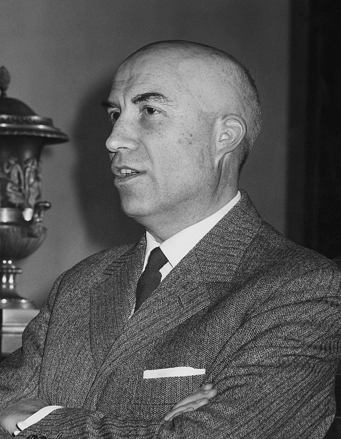 Italian jurist and political scientist Gianfranco Miglio, professor of political history at Milan's Università Cattolica del Sacro Cuore, speaking with folded arms. Milan, 8 January 1969.